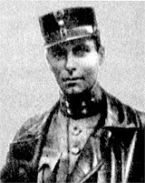 A portrait of Hungarian paramilitary leader Ivan Héjjas